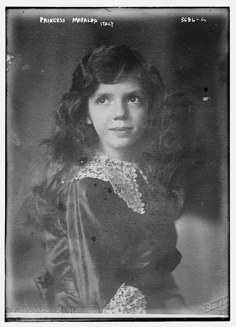 Princess Mafalda of Italy (1902-1944) as a young girl.